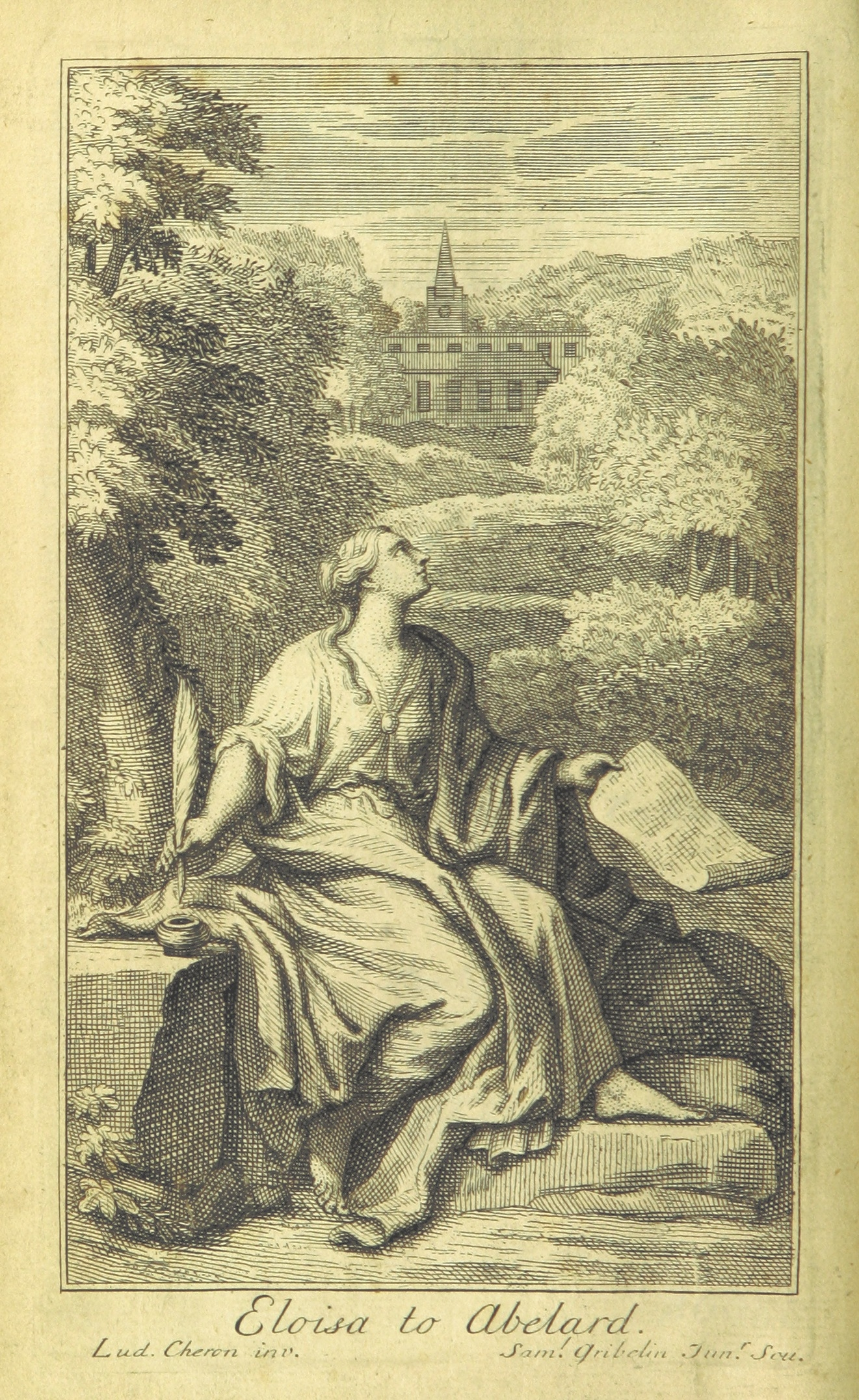 Page 4 of Eloisa to Abelard ... The second edition